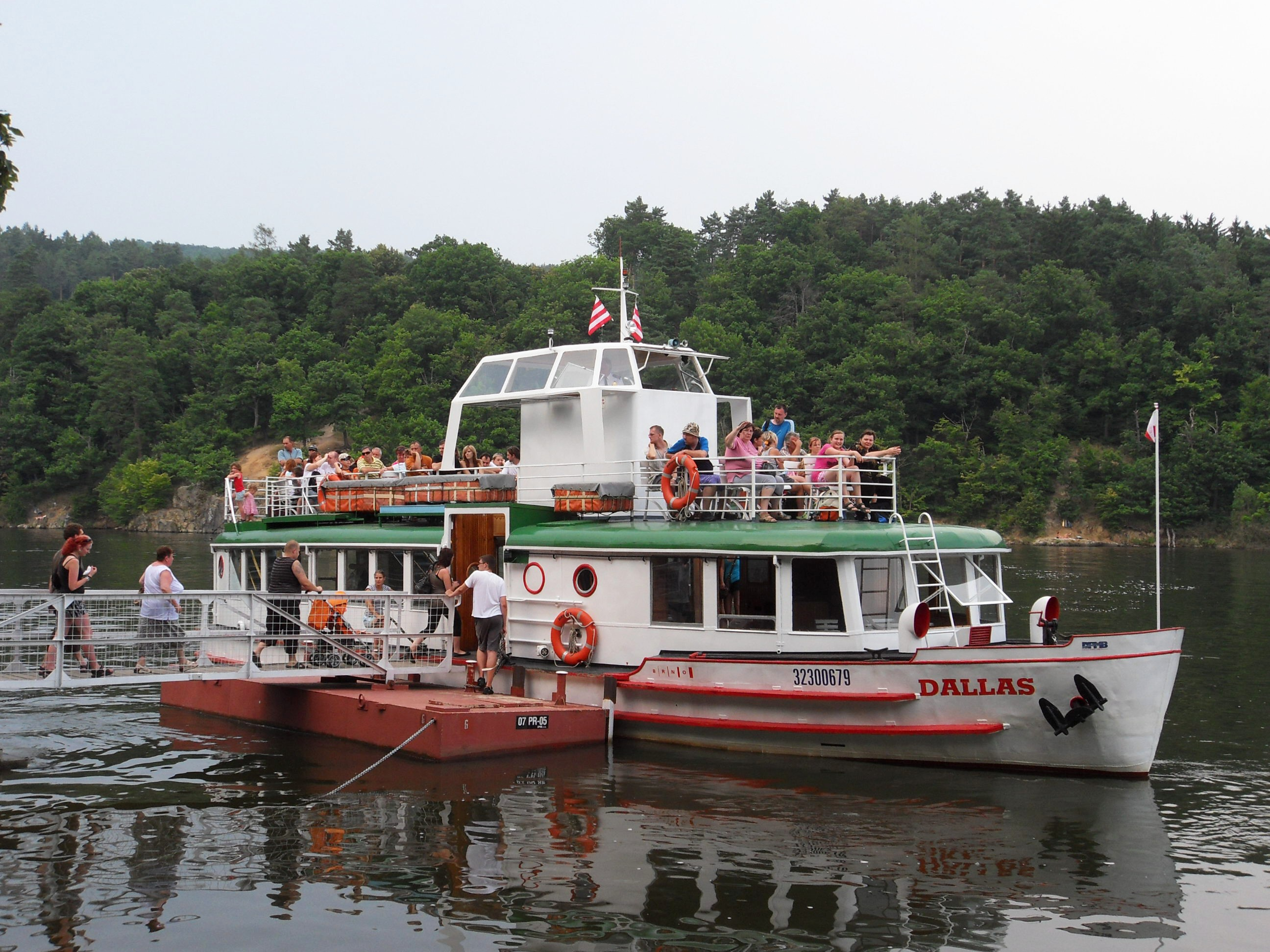 Dallas ship at Brno Reservoir, Brno, Czech Republic